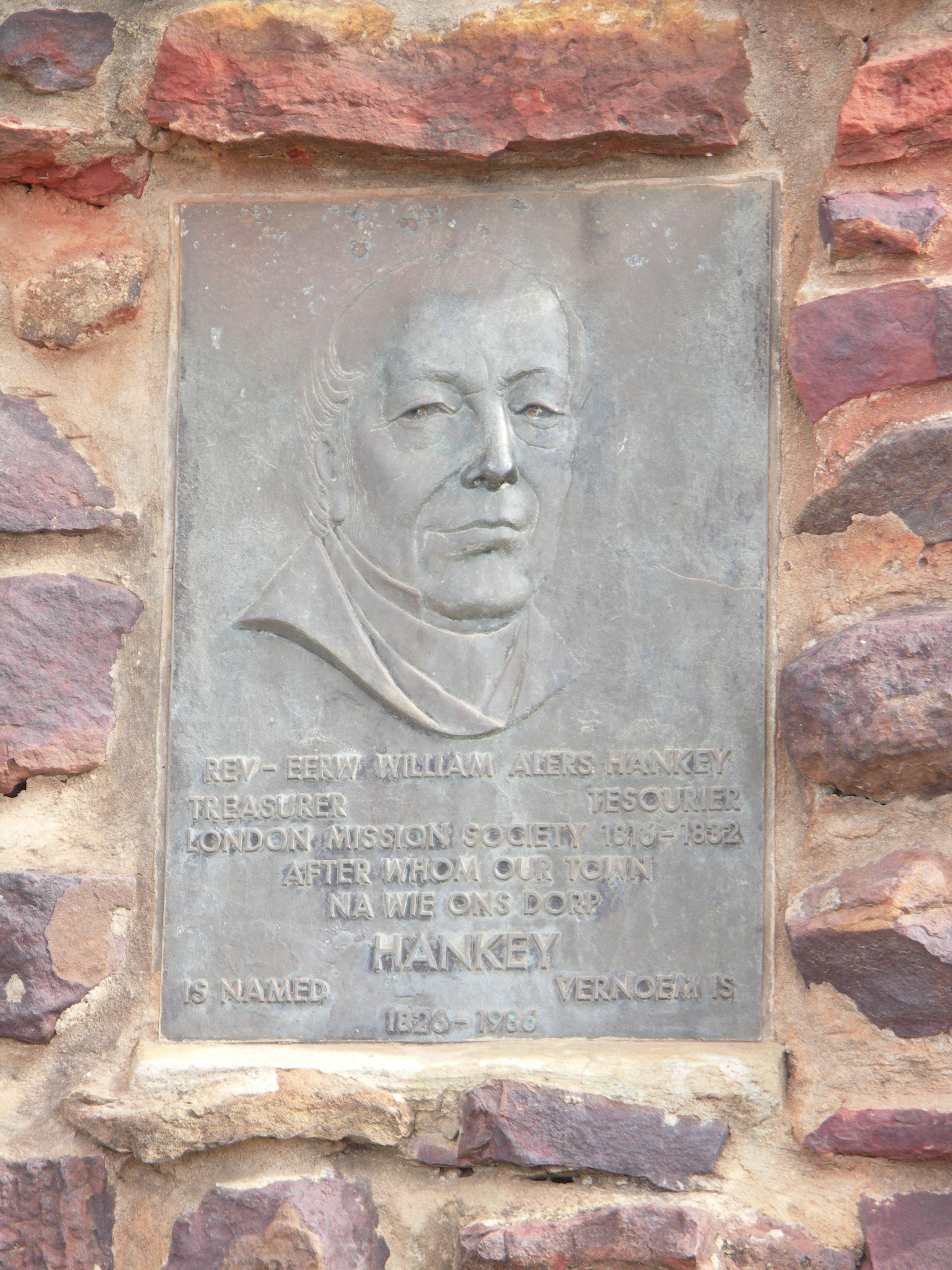 Engraving of William Alers Hankey after whom the Eastern Cape, South Africa town of Hankey was named